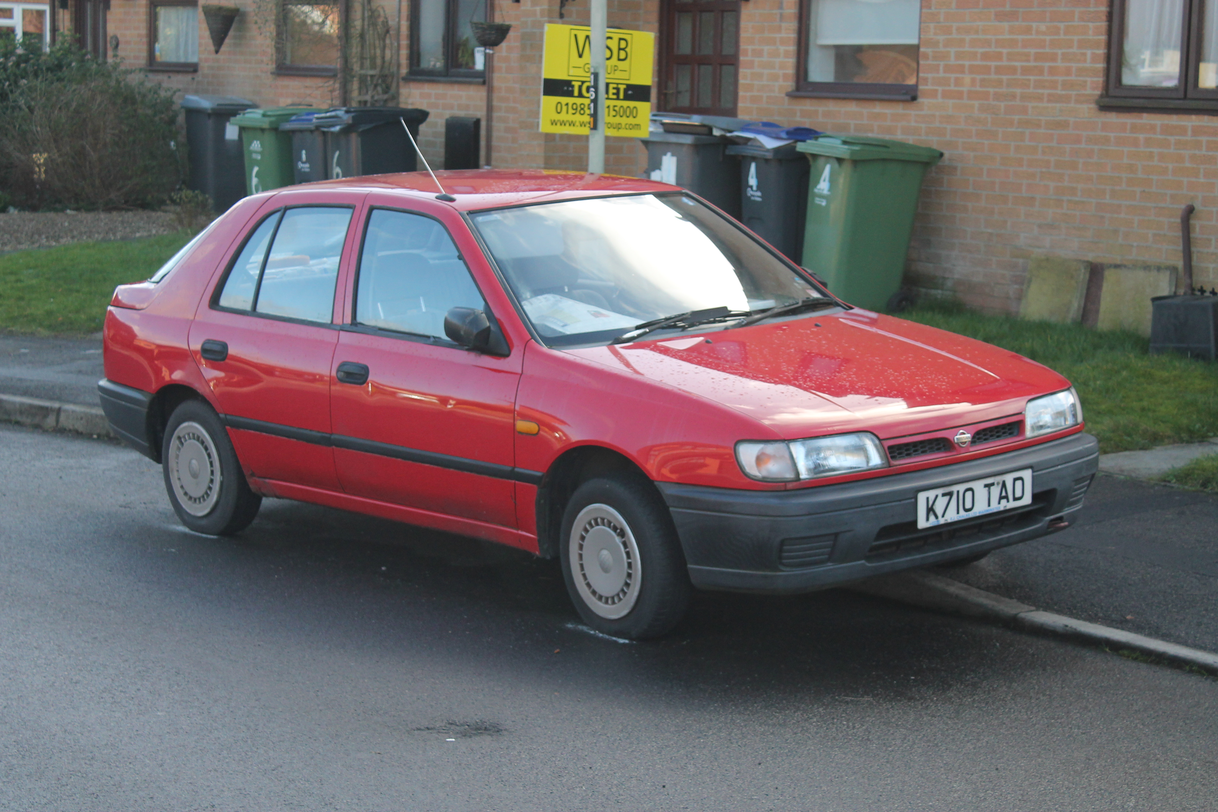 Well, I never thought Sunnys of this generation could be that rare, but this one really took me by surprise. It turns out this is one of just 5 L Autos on the roads (with one SORN), and they were only made in the year 1992. It always did seem to be a very rare spec- in 1994, there were only 126 on the roads according to HML. I quite like the wheel trim design on these, they're simply but nice. Was L spec on the Sunny a low one? I'm assuming it is due to the black bumpers. Clearly no-one bought automatic Sunnys in this spec. The vehicle details for K710 TAD are: Date of Liability 01 04 2014 Date of First Registration 30 11 1992 Year of Manufacture 1992 Cylinder Capacity (cc) 1392cc